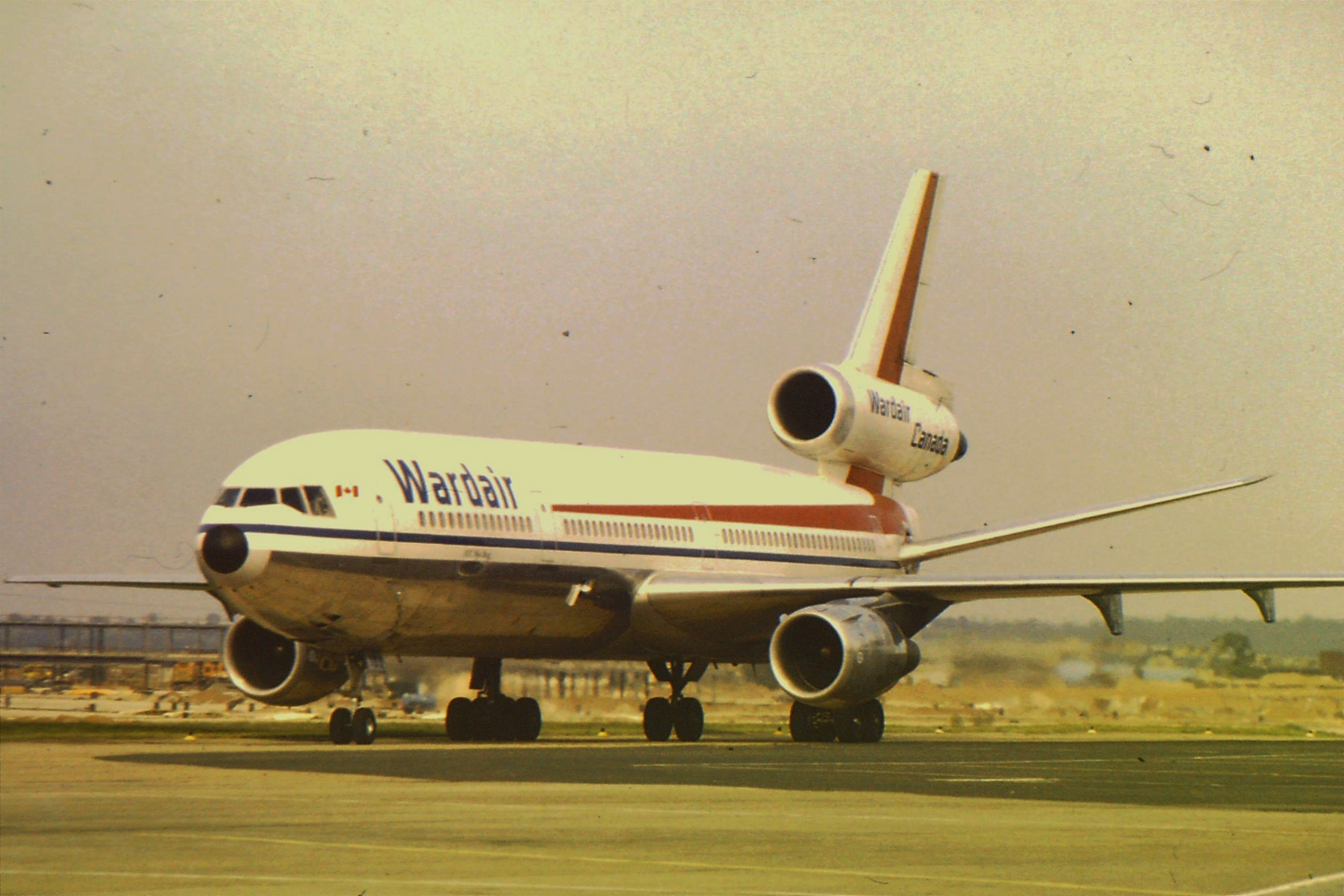 Looking and feeling hugely outsized for the BHX terminal was the seasonal charter to Toronto in the early 1980's. A more suitable terminal for the city is under construction, visible in the background.